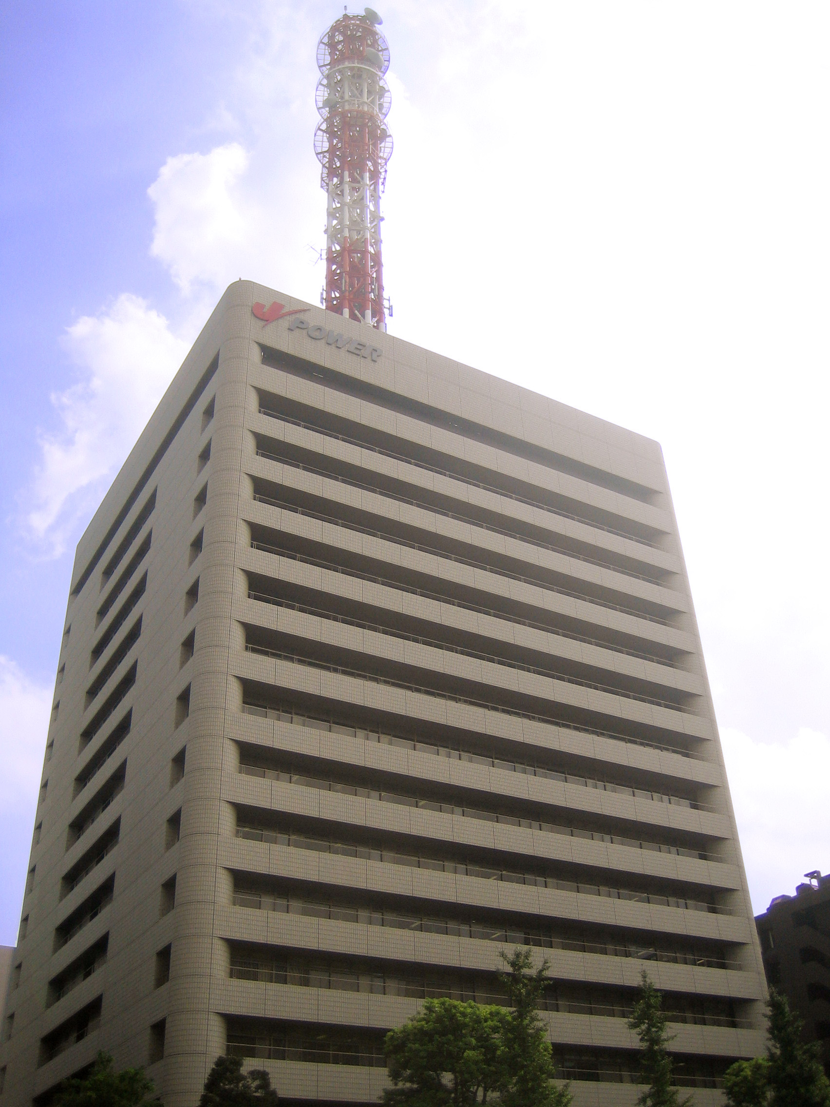 Head office of Electric Power Development Co.,Ltd (電源開発 Dengen Kaihatsu), at Ginza, Chuo, Tokyo, Japan